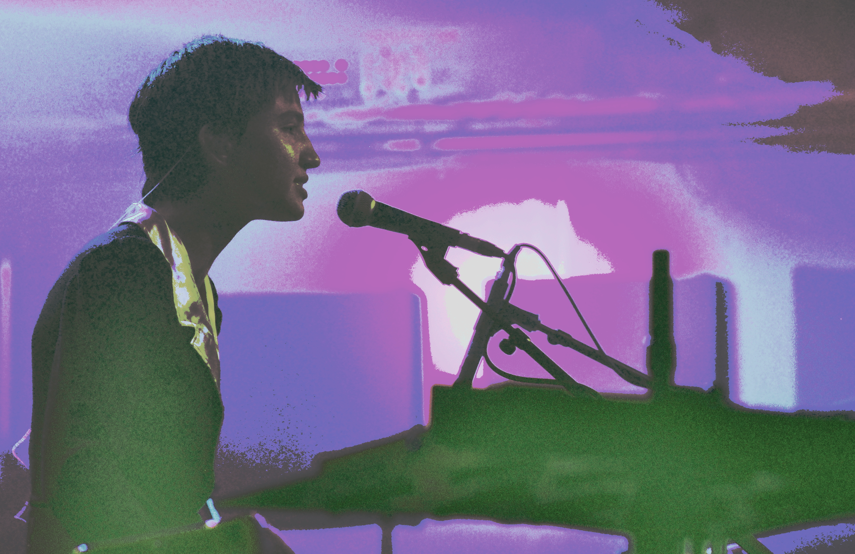 Chloe Saavedra of Chaos Chaos performing at Neumos in Seattle November 30, 2017.